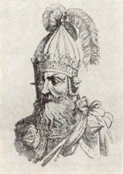 Mindaugas King of Lithuania